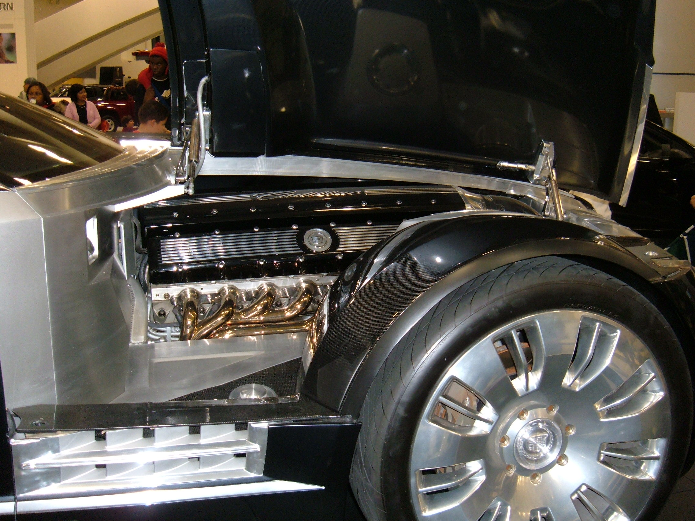 The engine of a Cadillac Sixteen at the 2004 San Francisco International Auto Show.